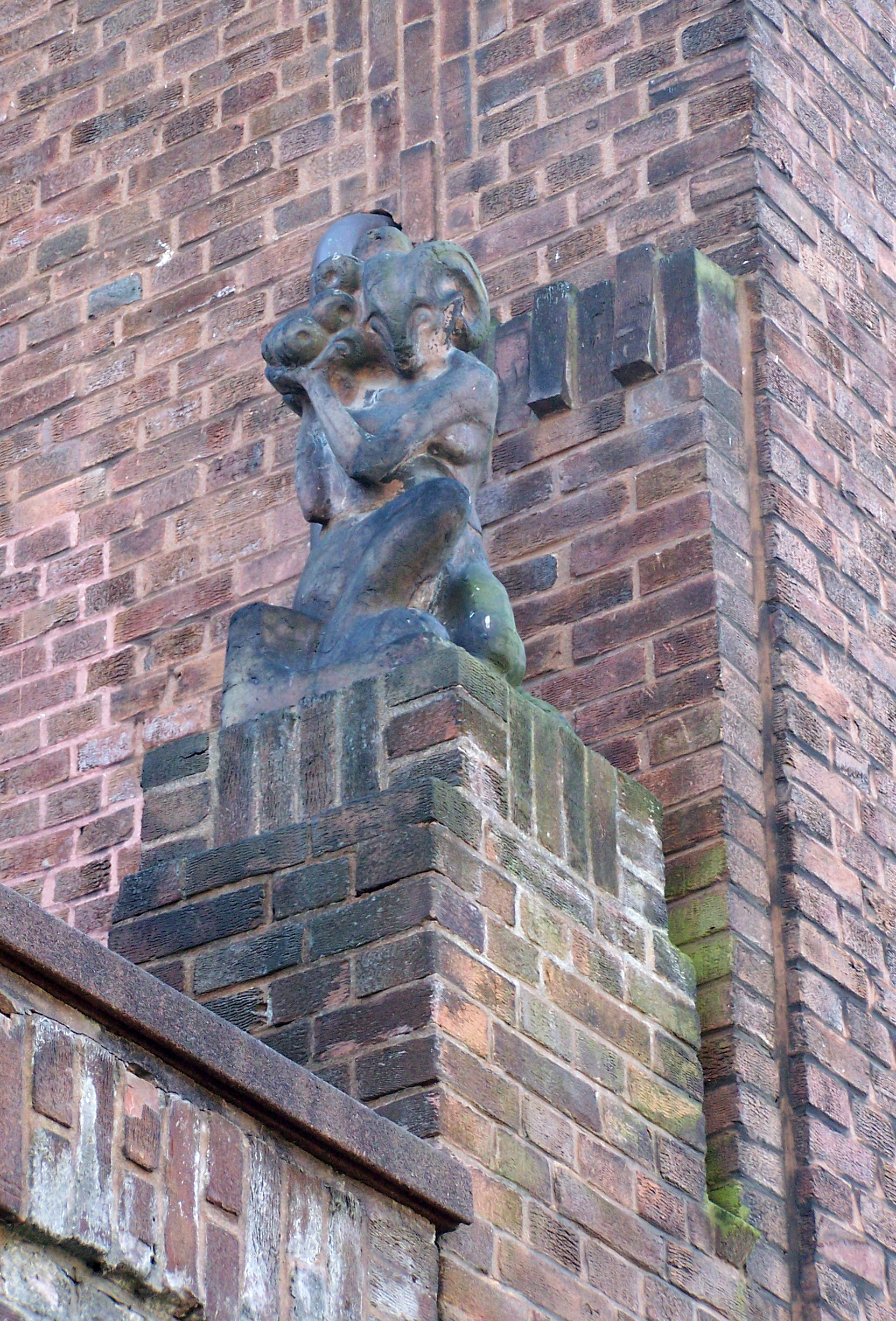 Detail of the ornament at the corner of the the housing complex "De Utrecht" (named after the former insureance company). Made by Hildo Krop in 1925. The ornament is a Fauna or Bona Dea. This picture was taken at the Jan van Scorellaan.